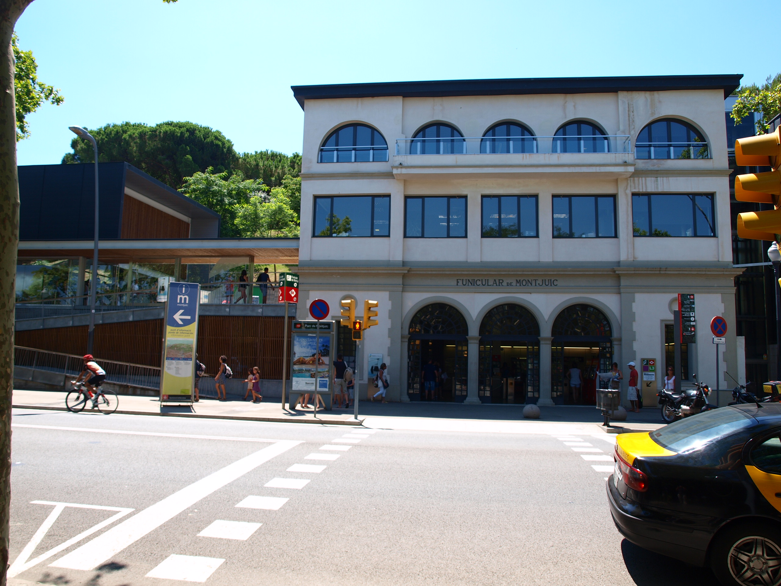 Funicular de Montjuïc in Barcelona - Frontside